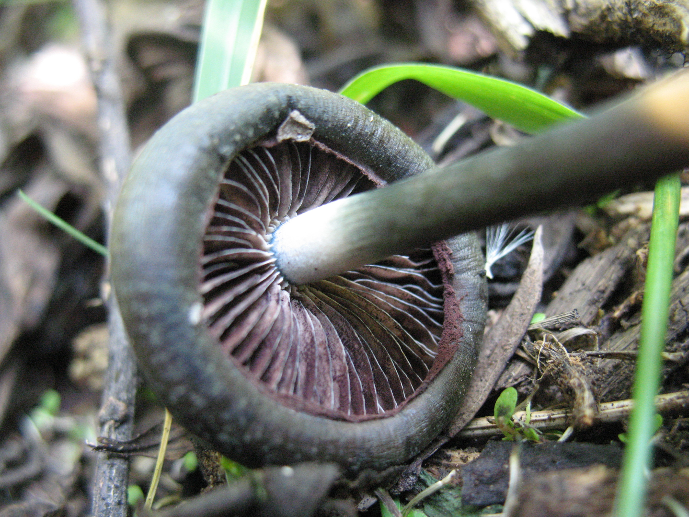 Psilocybe villarrealiae. Photo by Alan Rockefeller, taken in Jalisco, Mexico.